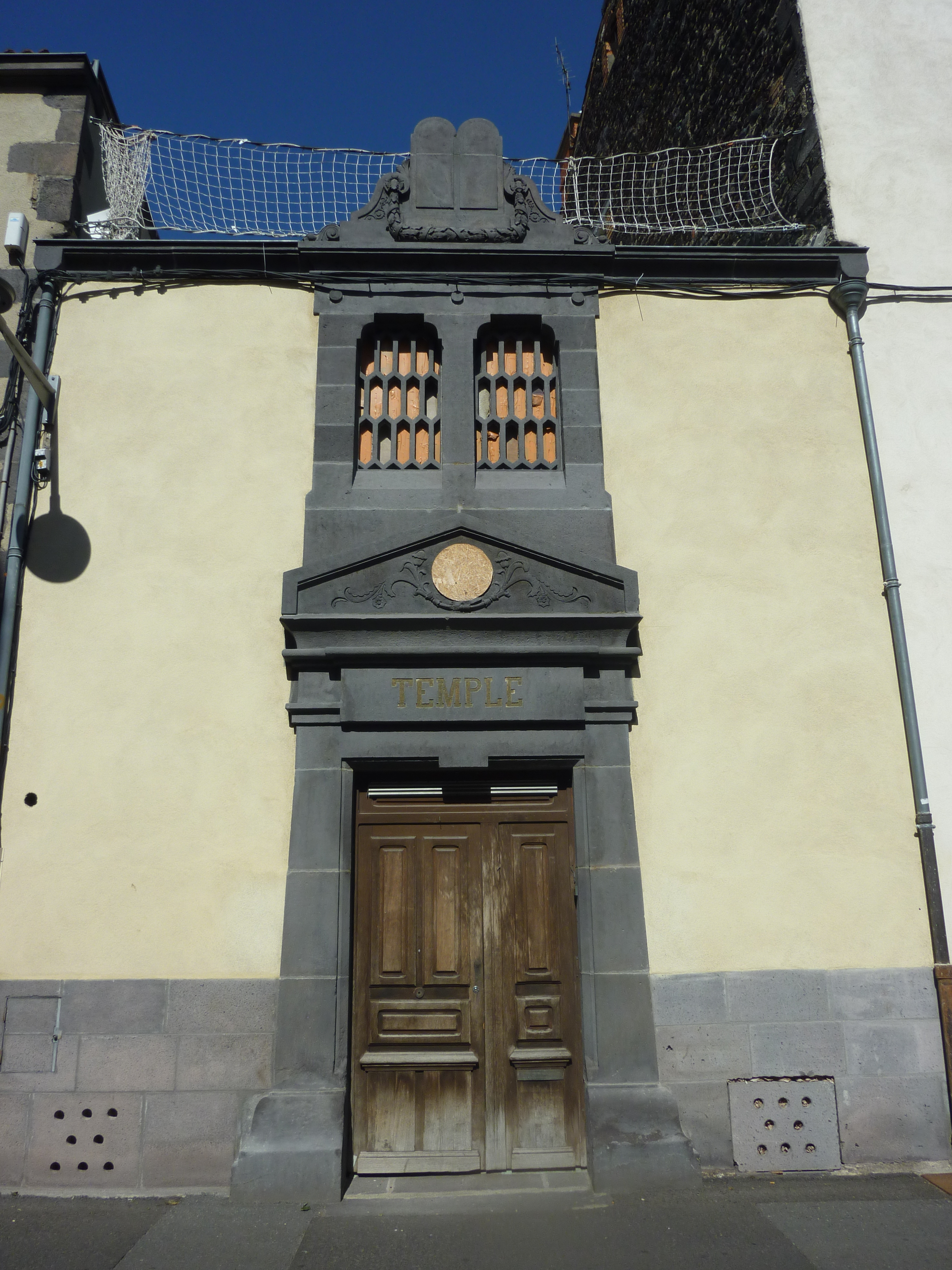 Old synagogue in Clermont-Ferrand, Puy-de-Dôme, France.